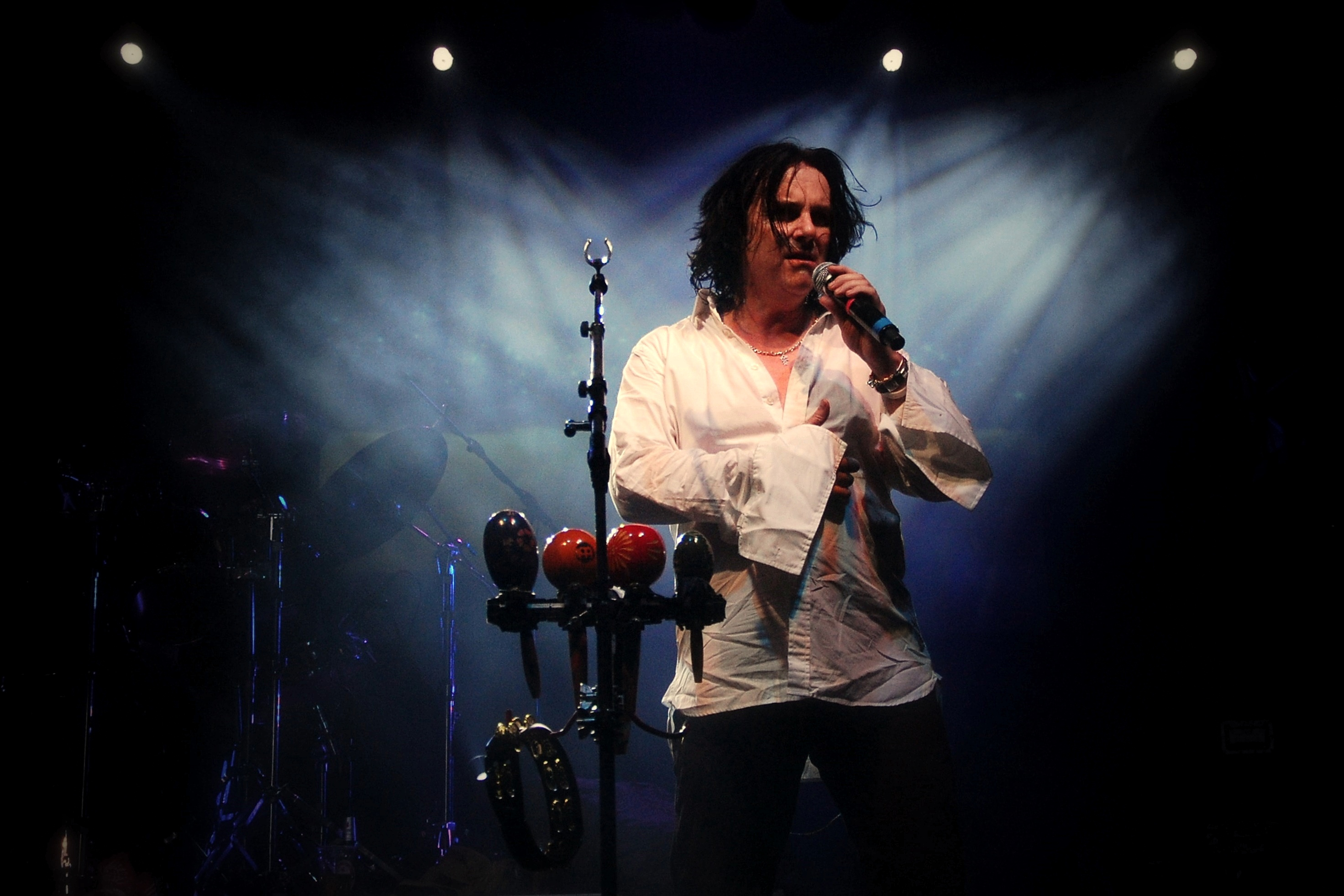 Steve Hogarth - Marillion - Live in Krakow, Poland 2009.